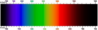 Spectrum of visible light, rendered in sRGB, so that the relative luminances are respected. The CIE 2Â° color matching functions were taken from and the conversion from XYZ to sRGB from I normalized values so that the red component of 602 nm was 255 (the maximum), Colors which in sRGB would have been too bright because they are made by two primaries (namely, yellow and cyan) had to be dimmed and were thus somewhat desaturated, due to the way sRGB works.